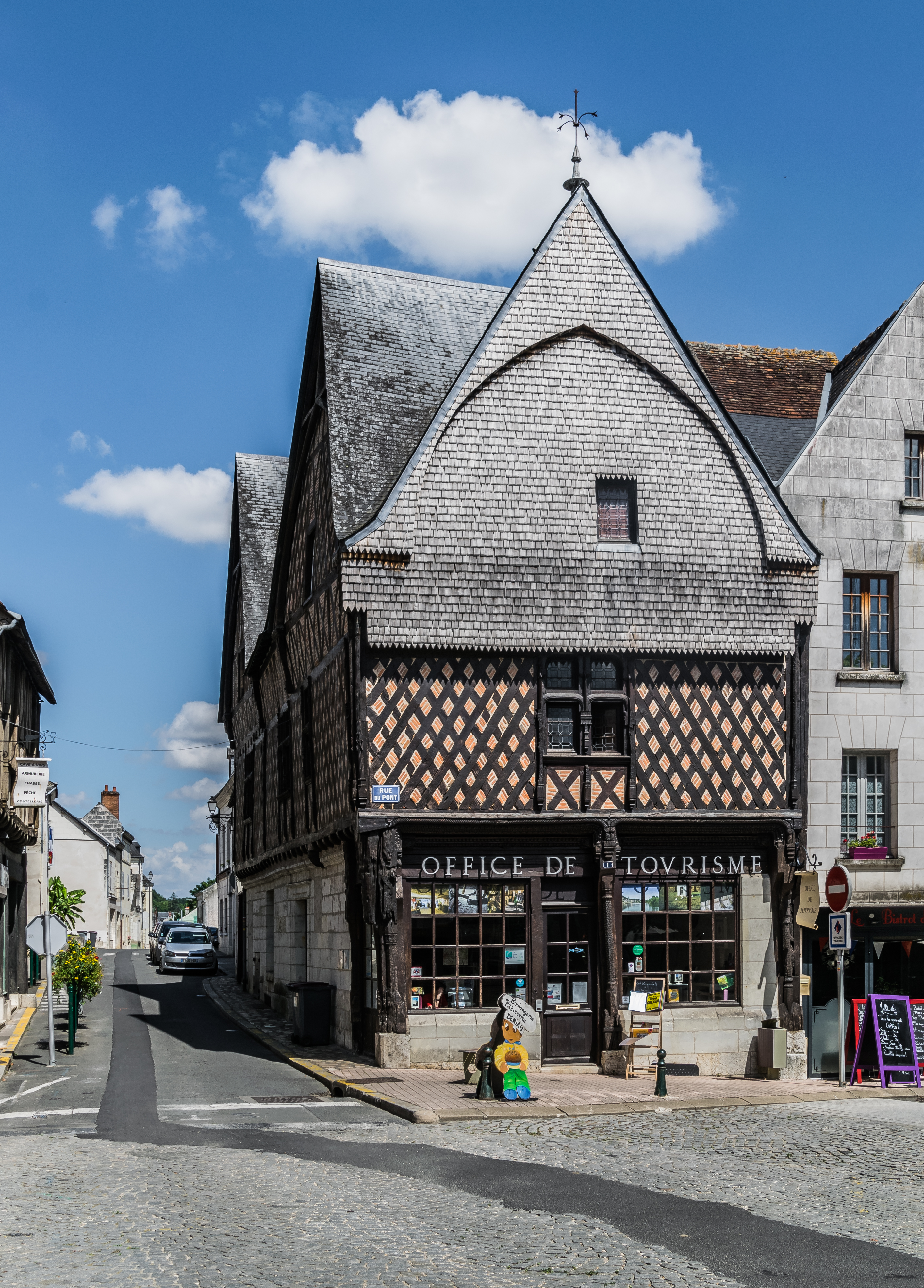 Maison de l'Ave Maria in Montrichard, Loir-et-Cher, France .